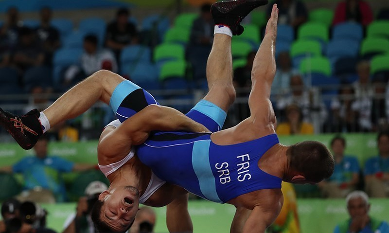 Rio 2016; Greco-Roman Wrestling 59 kg